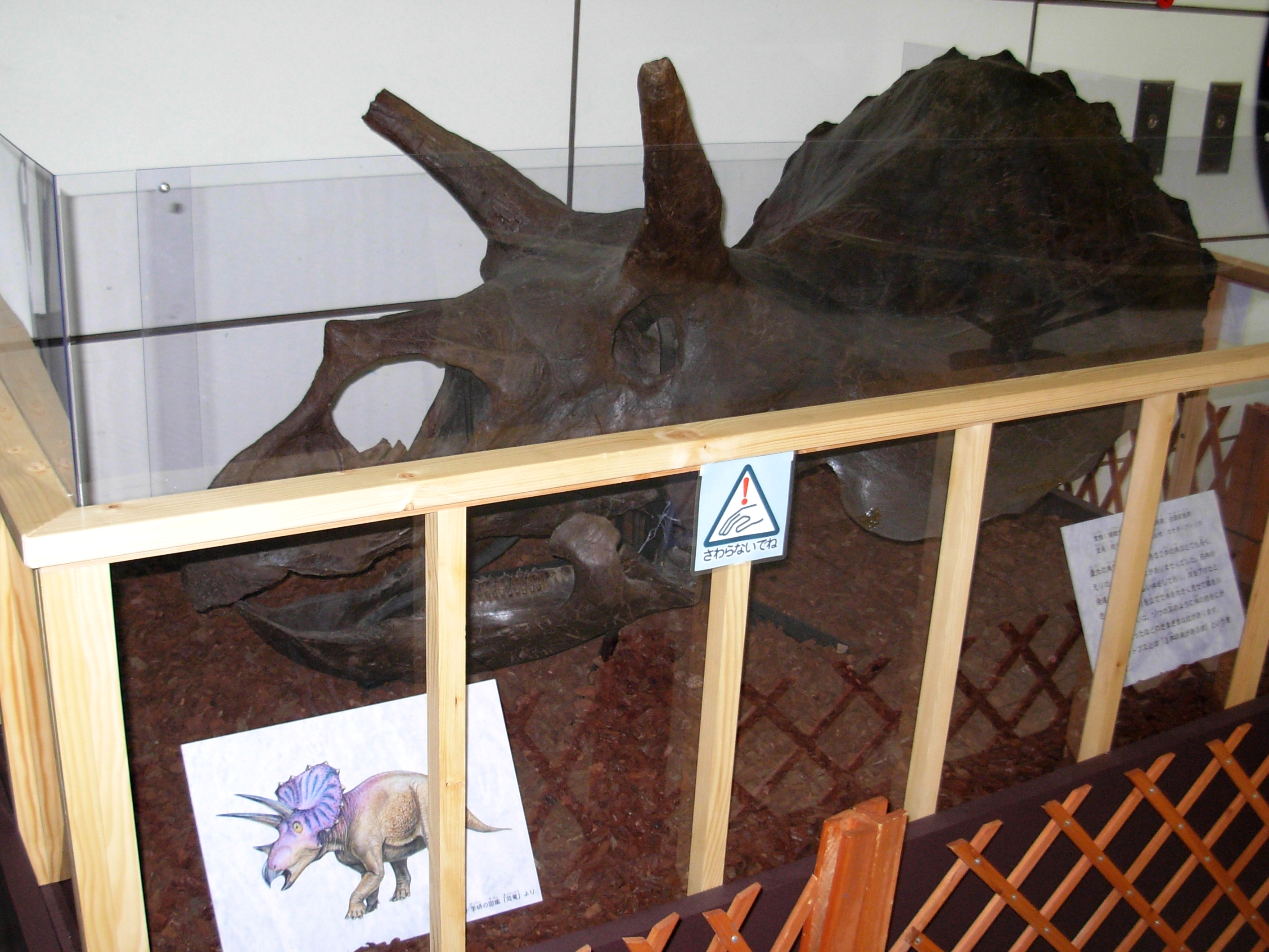 Fossil of triceratops exhibited in Itabashi Science and Education Hall, Itabashi, Tokyo, Japan